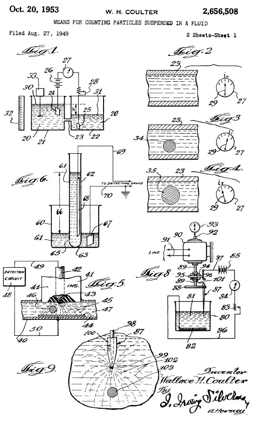 Coulter patented several different geometries that work with the Coulter Principle. (Image from US Patent #2,656,508)